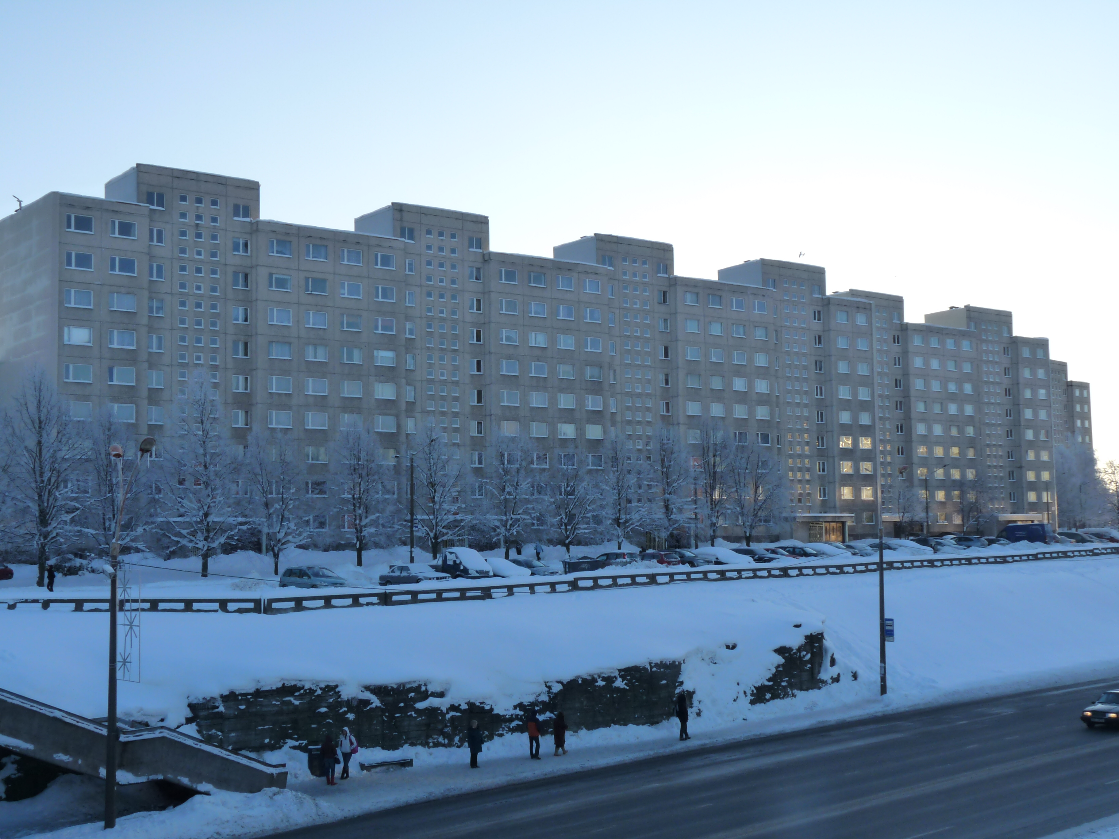 Paekaare street in Tallinn